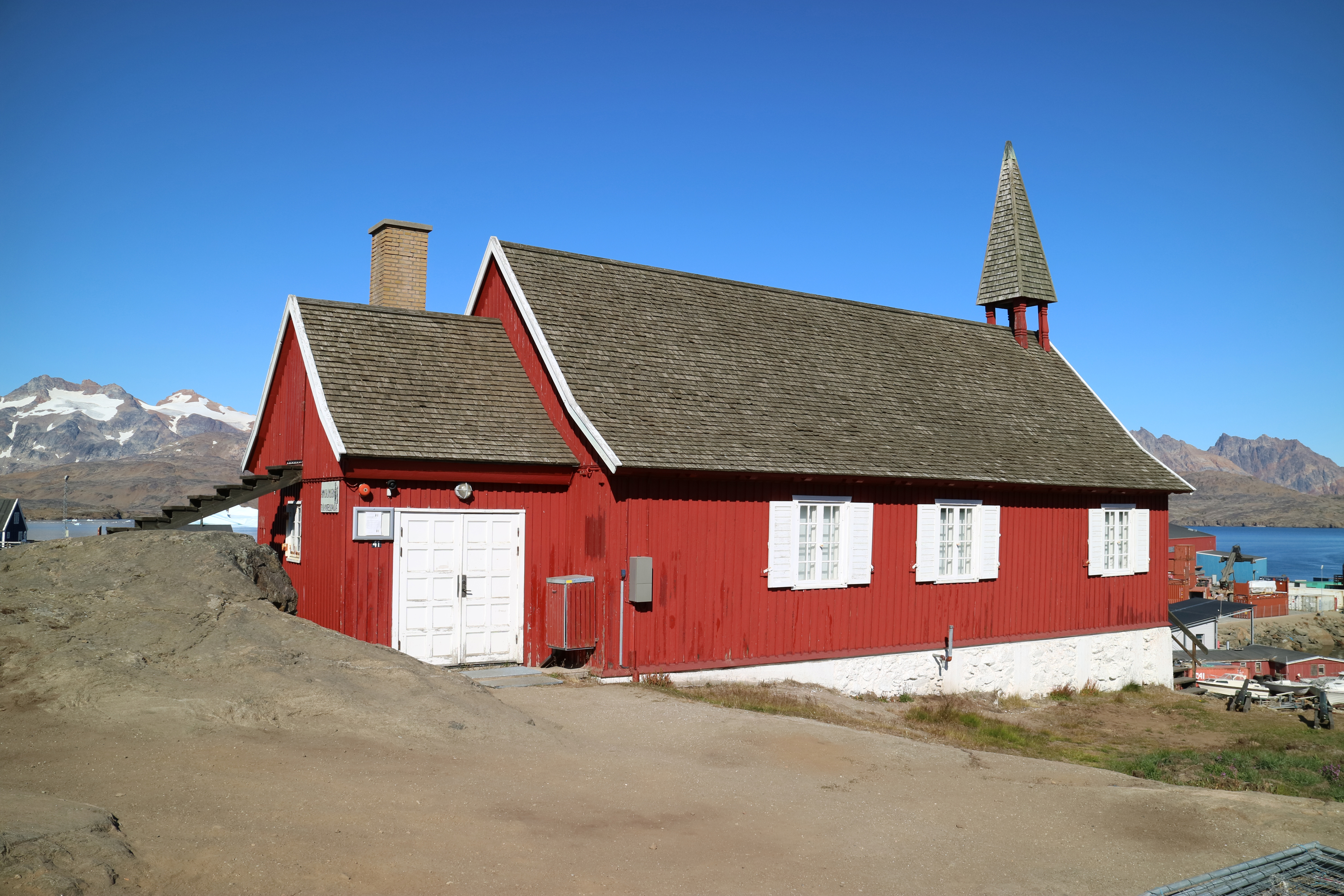 Old church (museum) of Tasiilaq, Greenland